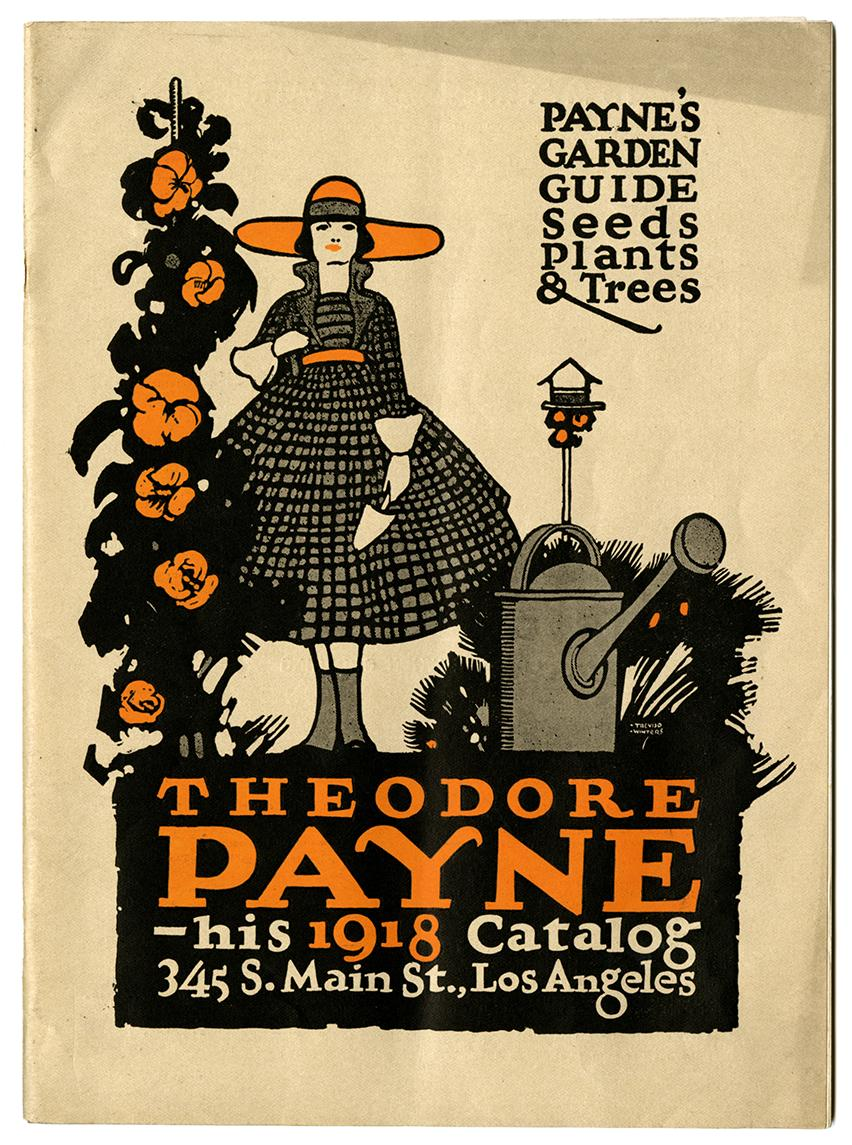 Title: Catalog, Theodore Payne, Seedsman and Nurseryman, Los Angeles [cover] Repository: California Historical Society Digital object ID: CHS2013.1326 [a].jpg Call Number: BUS EPH Collection: California business ephemera collection Preferred citation: Catalog, Theodore Payne, Seedsman and Nurseryman, Los Angeles [cover], California business ephemera collection, courtesy, California Historical Society, CHS2013.1326 [a].jpg. Online finding aid